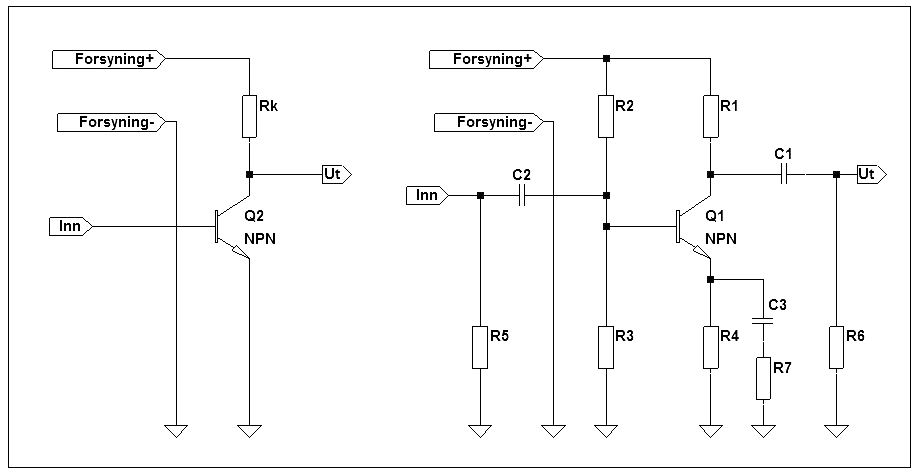 Common Emitter diagram, NPN transistor